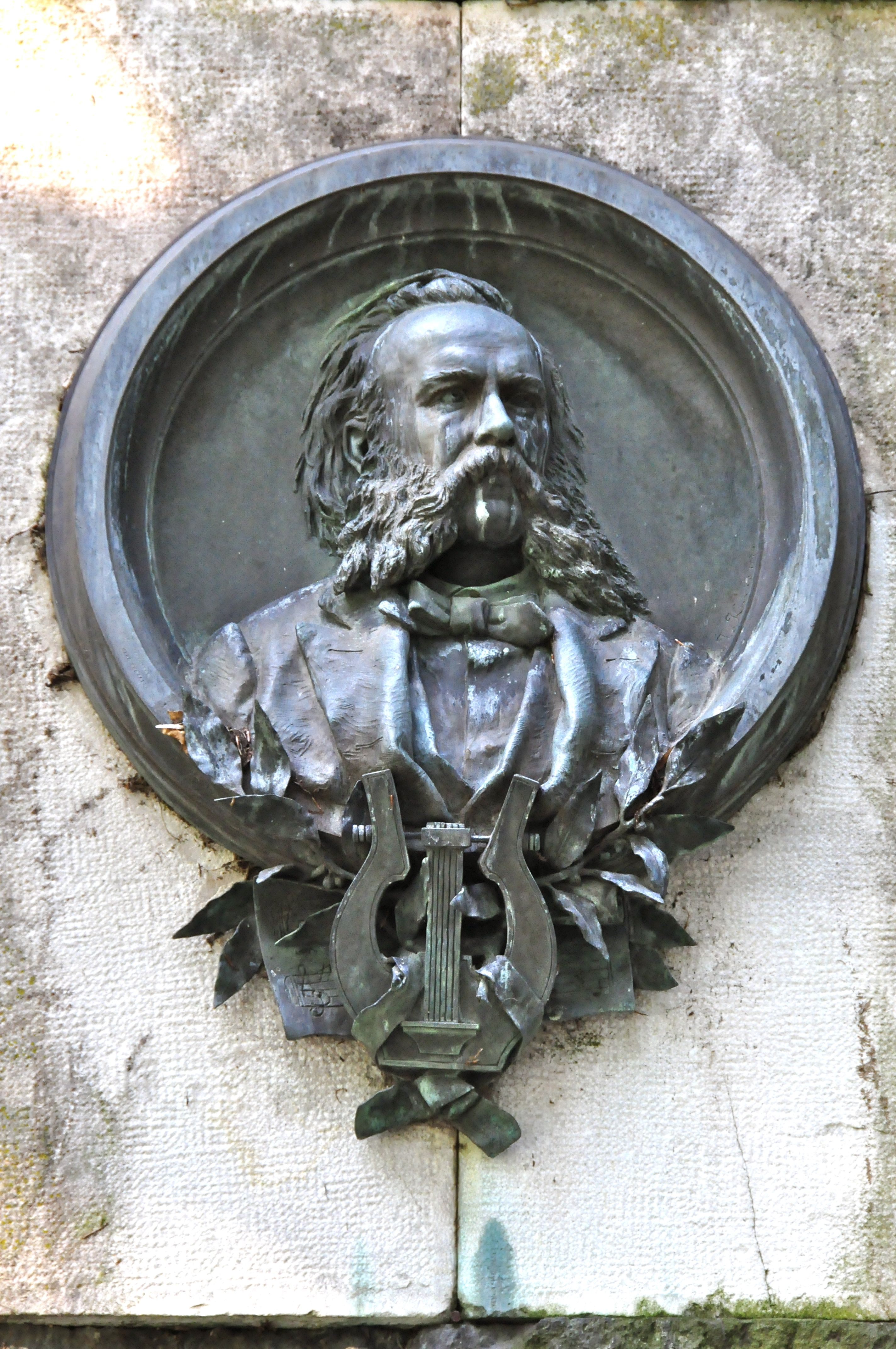 Monument, created by Josef Valentin Kassin, dedicated to the Austrian conductor and composer Johann Ritter von Herbeck on the alameda of the peninsula in the municipality Poertschach on the Lake Woerth, district Klagenfurt-Land, Carinthia, Austria